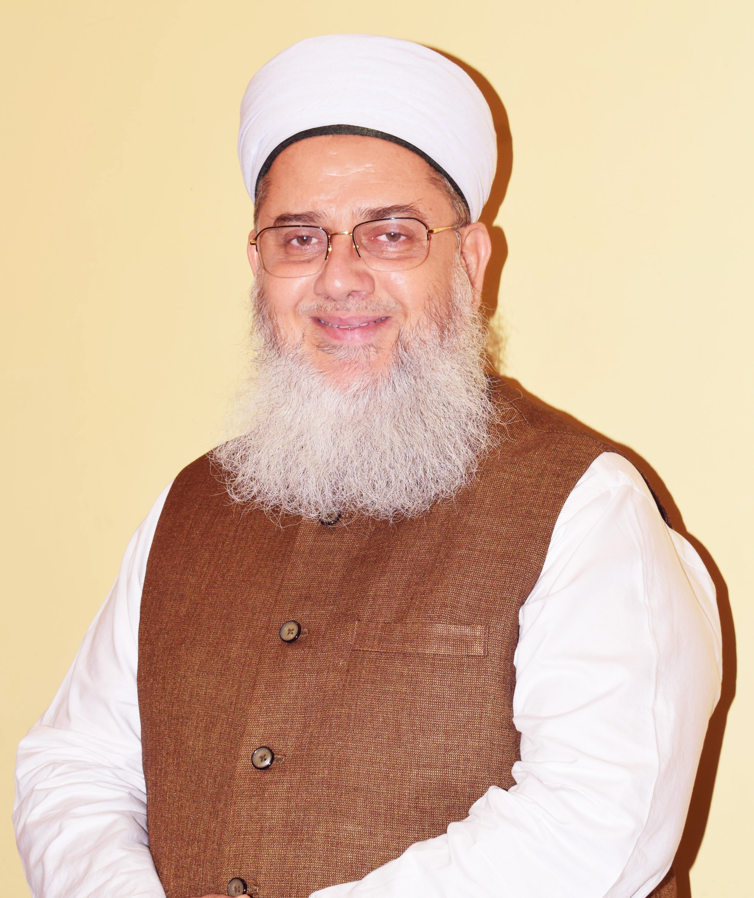 This photo was taken in world sufi forum,New Delhi